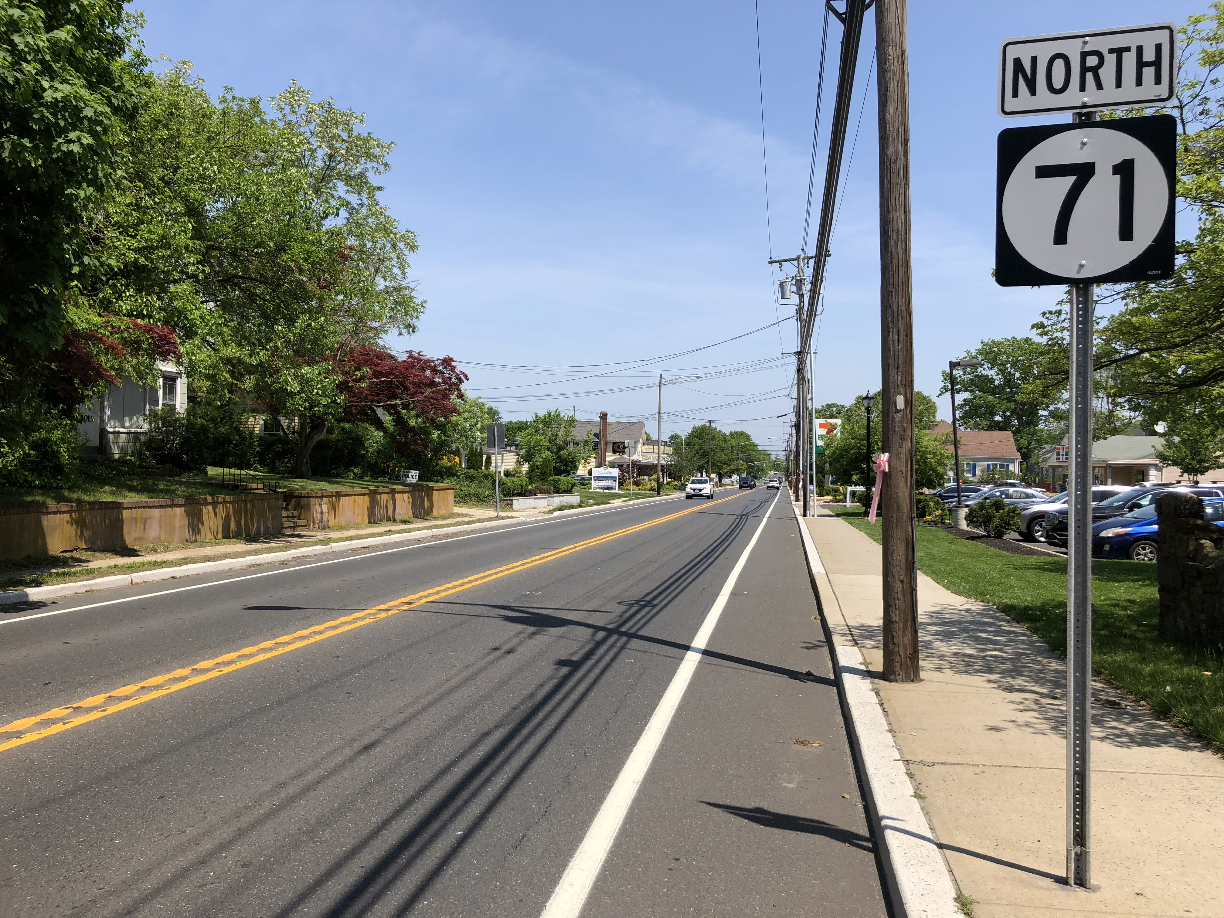 View north along New Jersey State Route 71 (7th Avenue) between Church Street and Pitney Drive in Spring Lake Heights, Monmouth County, New Jersey